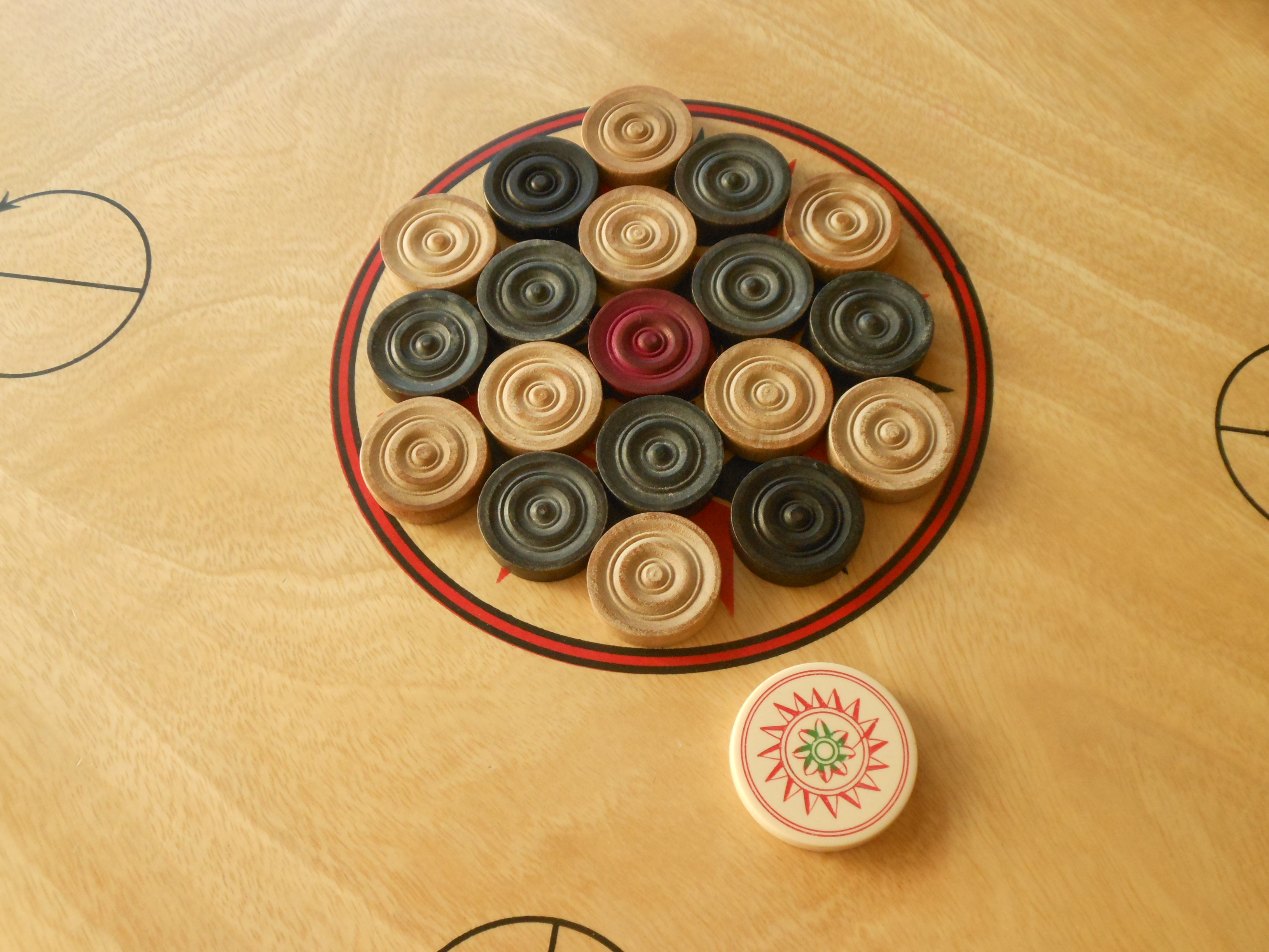 Arrangement of pieces at the start of the game carrom.